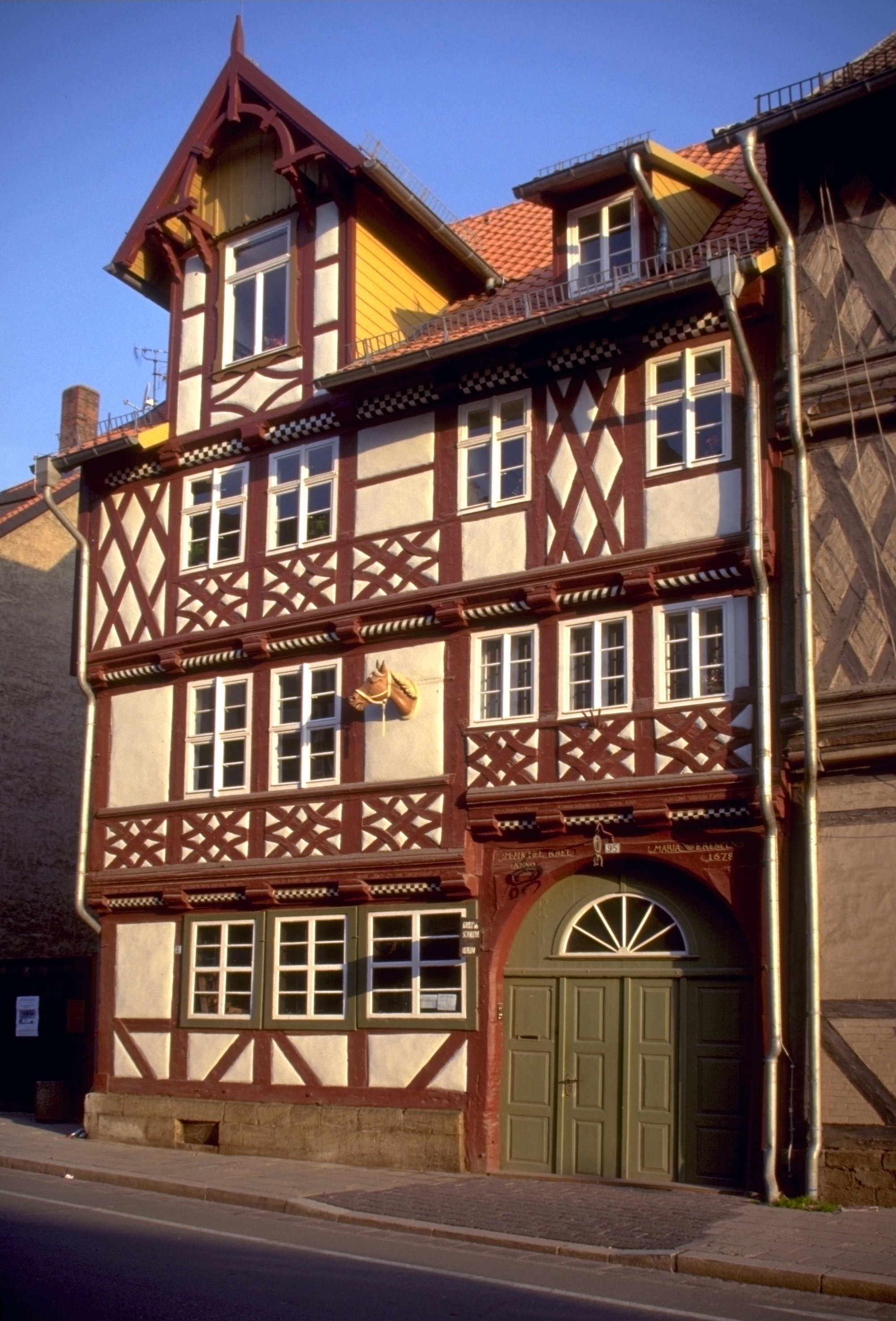 Krellsche Schmiede, Wernigerode, Germany